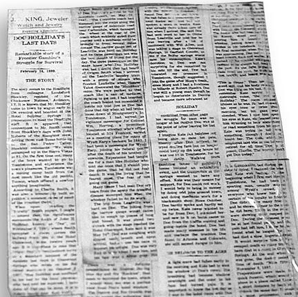 An image of part of the 1899 Sulphur Headlight article that printed what was claimed until 2003 to be a story from O.C. Smith about Doc Holliday's final moments. The article was published, but the letters supposedly from Smith appear to have been fabricated by Lundsford Shockley, who delivered them to the newspaper.